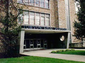 Towson High School, Towson, Md., contributed by User:JGHowes